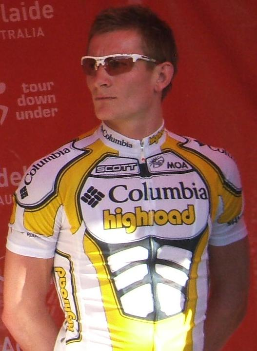 Named cyclist at the en:2009 Tour Down Under team presentation